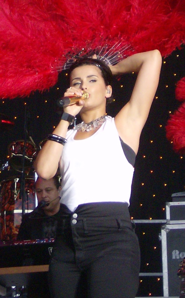 Nelly Furtado, live in Amsterdam, July 7, 2008